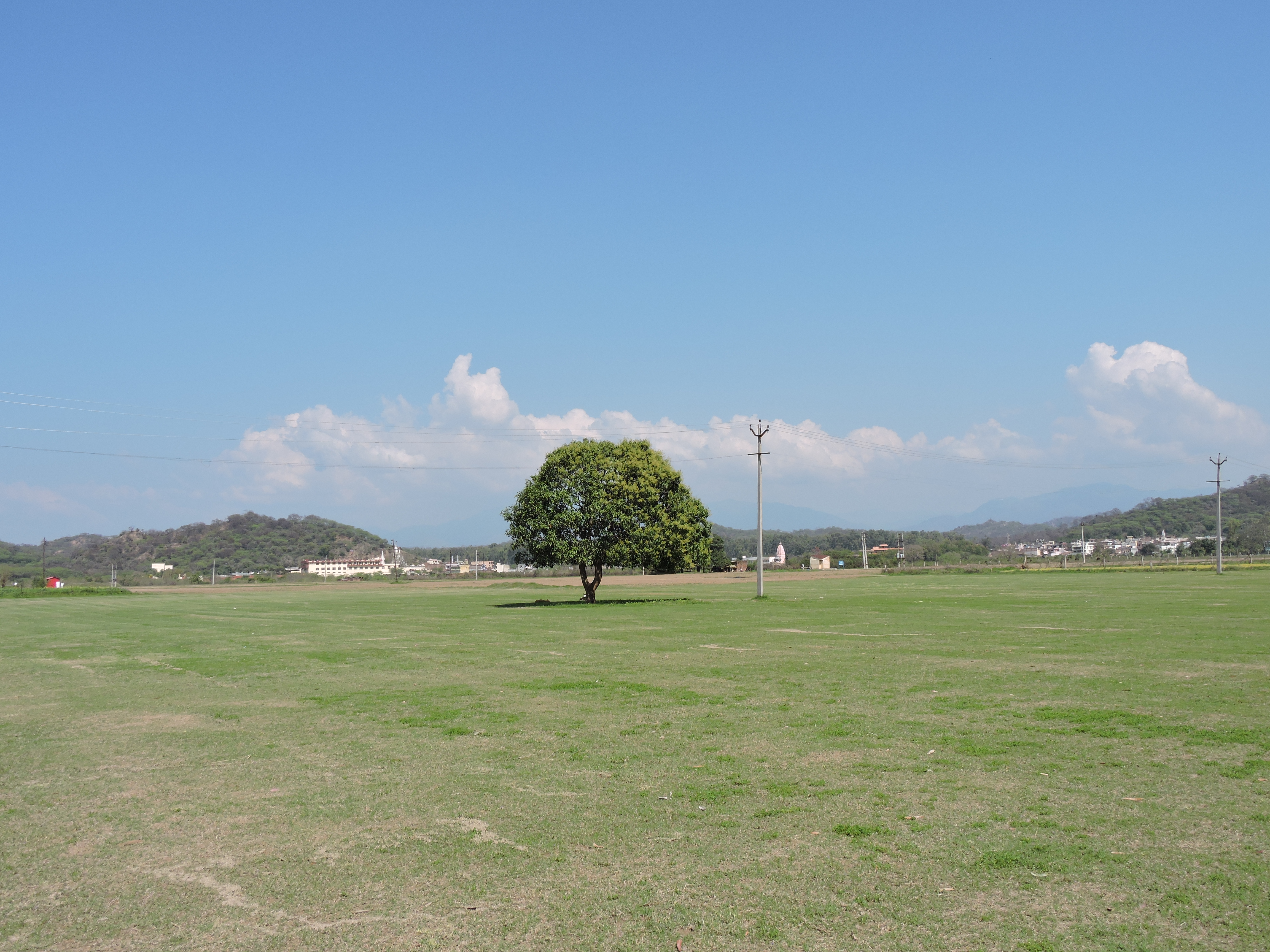 village saketri, district Panchkula,Haryana,India